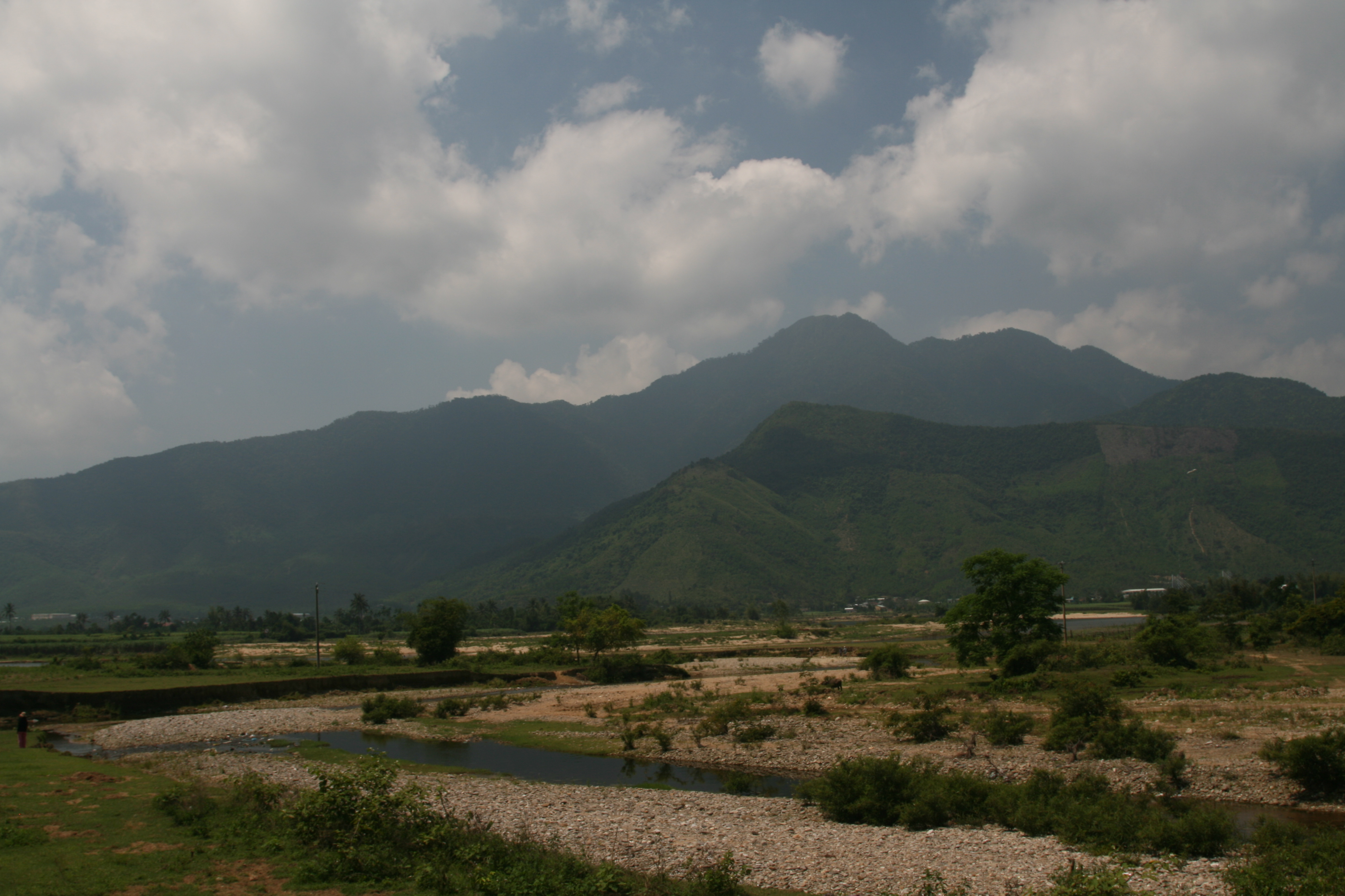 Landscape south of the Annamite Mountain Range near Hoi Yen, Quang Nam Province, Vietnam.